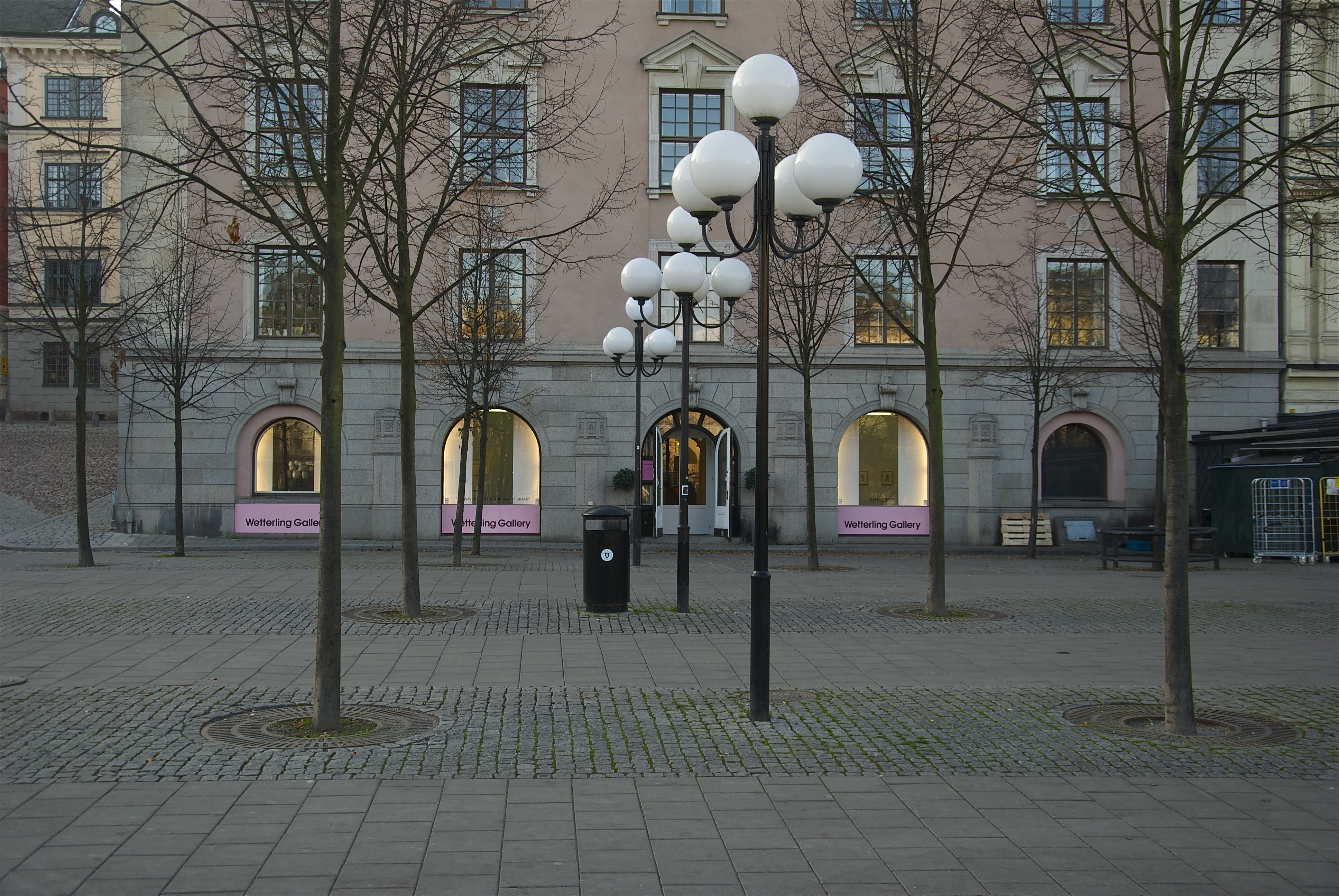 Wetterlings gallery, Kungsträdgården (Stockholm).